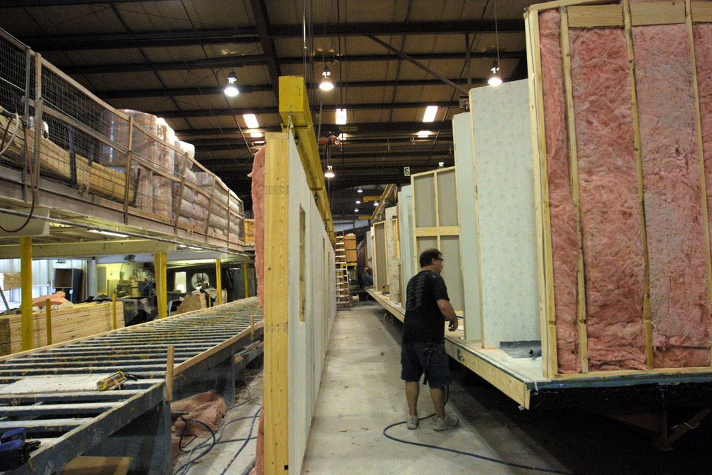 Manufactured homes side walls are built and then lifted into place